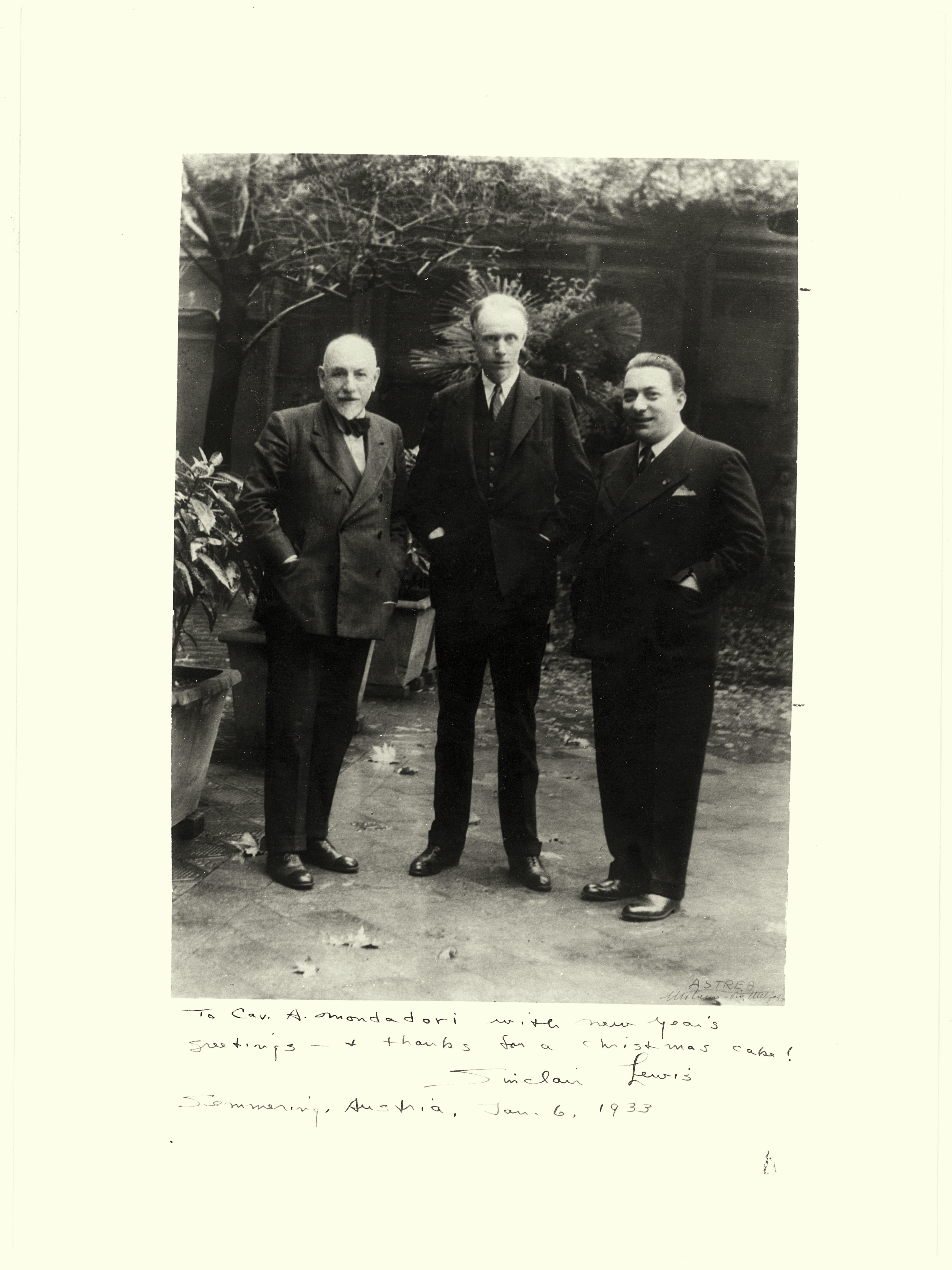 Italian author Luigi Pirandello with Sinclair Lewis and Italian publisher Arnoldo Mondadori.